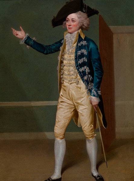 Charlotte Goodall by Samuel De Wilde Dressed as Sir Harry Wildair inThe Constant Couple; or A Trip to the Jubilee. c. 1792